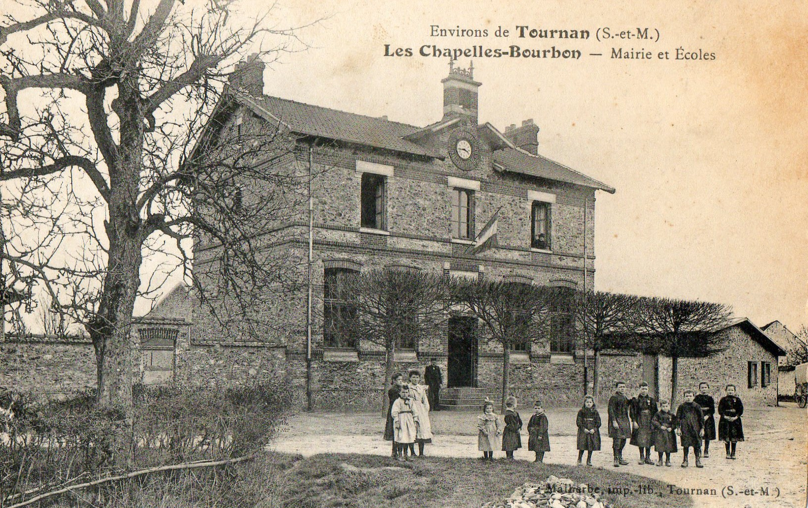 es Chapelles-Bourbon - Town Hall and Schools